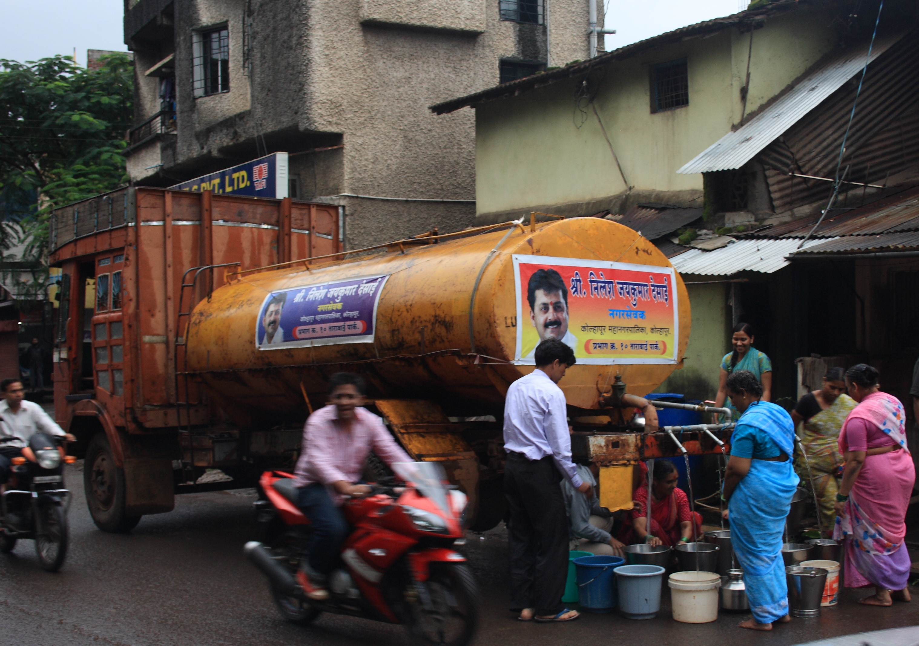 A truck distributing water to residents the seem not to have a (working) water supply line in their houses. Seems like a local politician sponsored the water as part of his election campaign. The timing is a bit odd since Indian monsoon takes place ongoing from June/July - so there should be no severe water shortage. Taken at Kolhapur, Maharashtra, India.